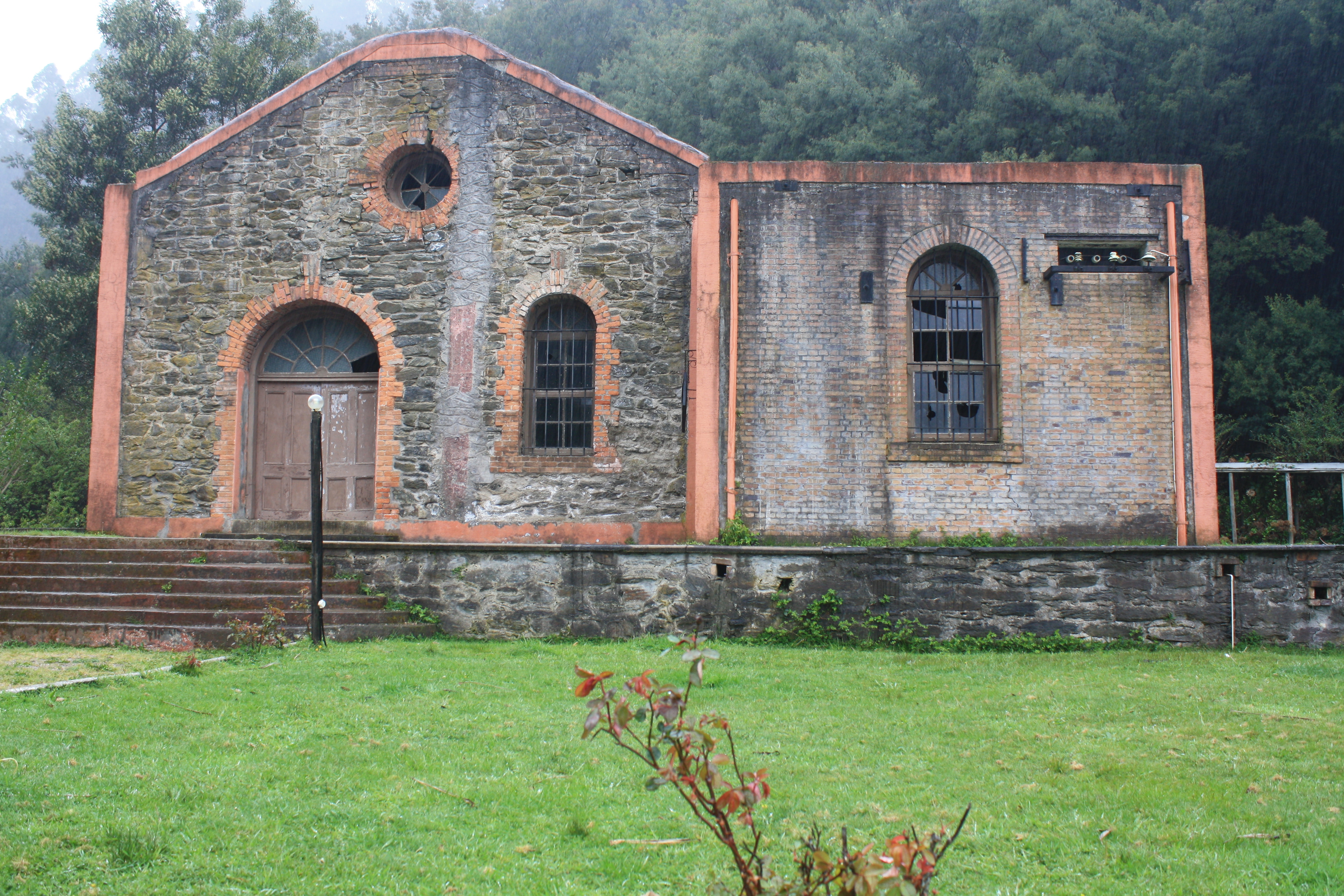 This is a photo of a national monument in Chile: 148